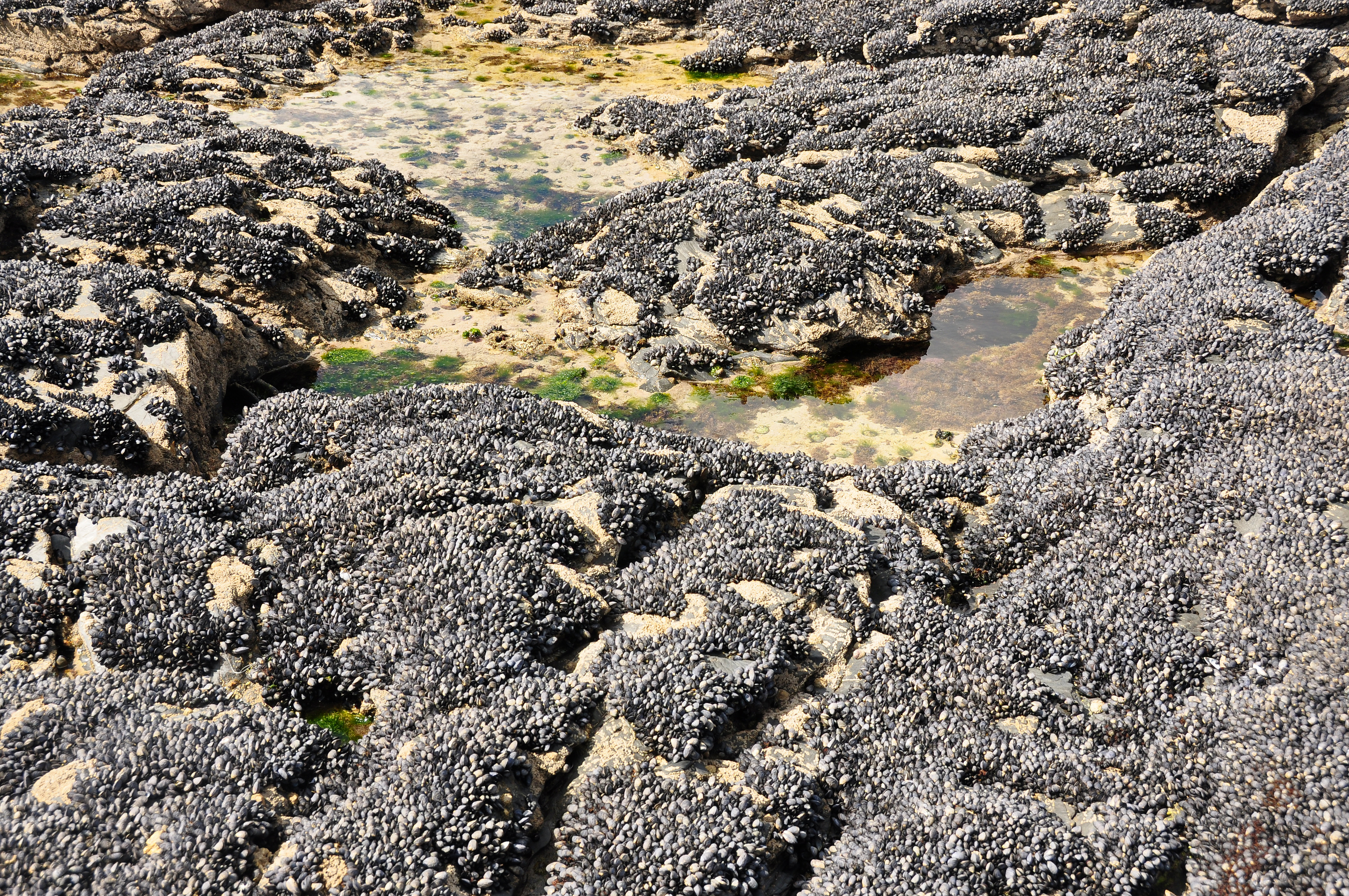 Mussels covering the rocks at Booby's Bay on the north Cornish coast.